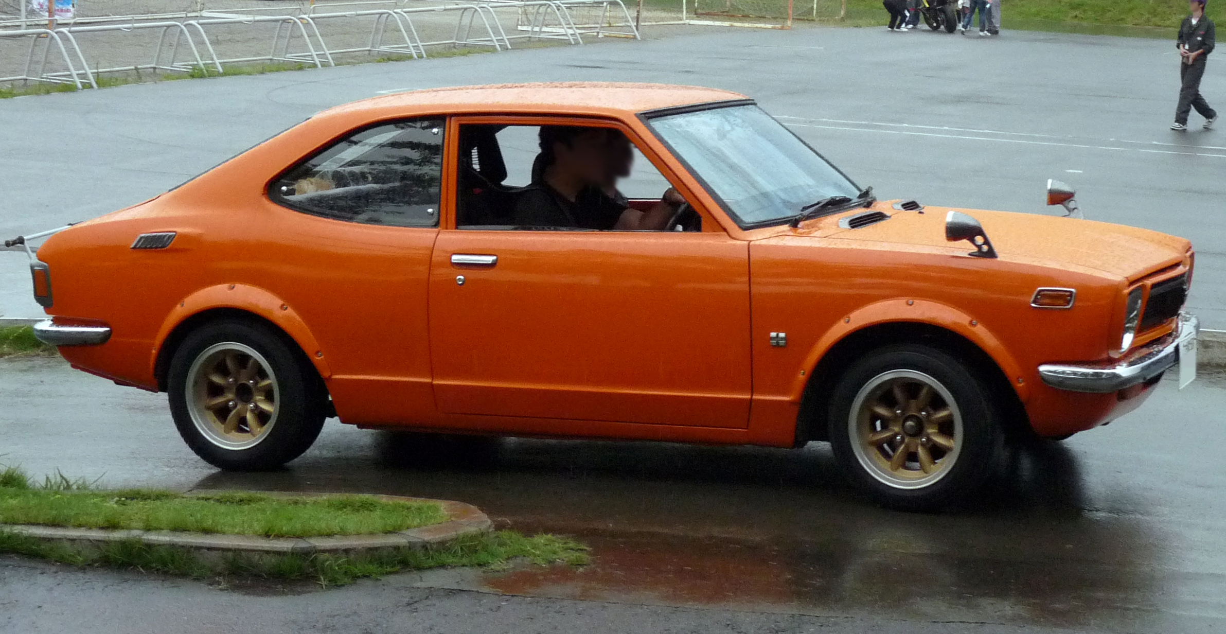 Toyota Sprinter Trueno TE27 at Saitama-Jidosya-daigaku classic car meet.